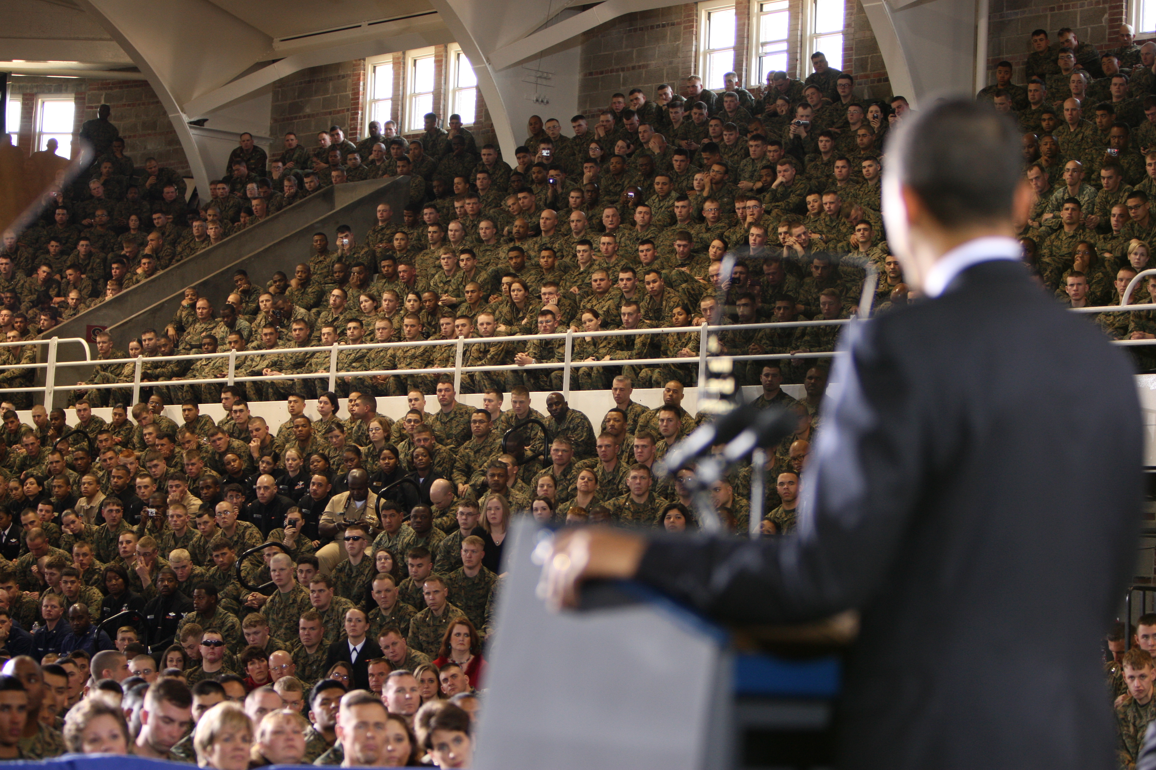 President of the United States Barack Obama talks to service members and civilians during his visit to Camp Lejeune, N.C., Feb. 27, 2009. The President is visiting Camp Lejeune to speak on current policies and exit strategy from Iraq. VIRIN: 090227-M-7069A-004